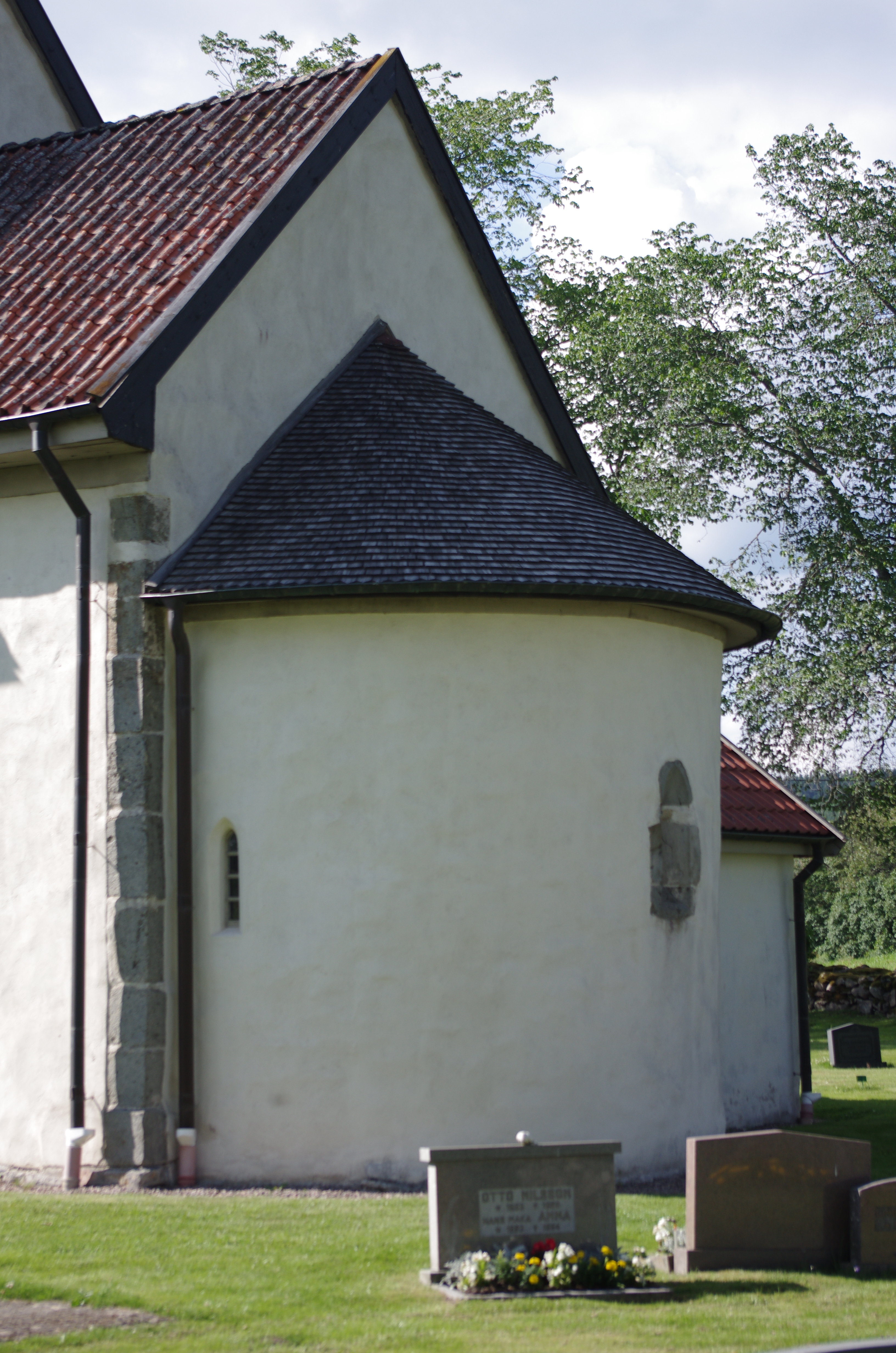 Östra Gerum church in Västergötland, Sweden.